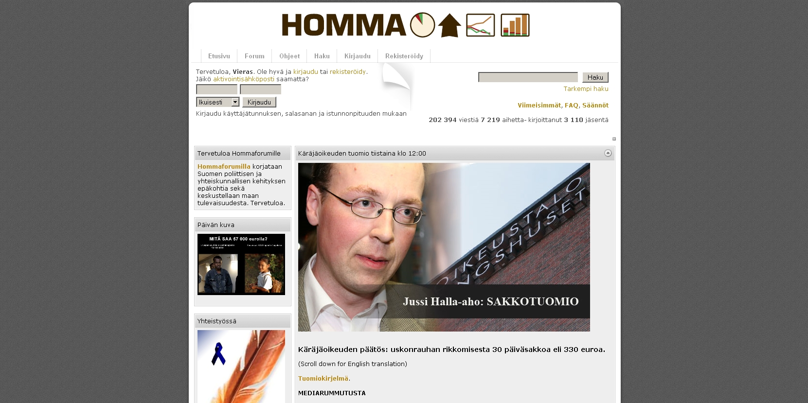 Frontpage of